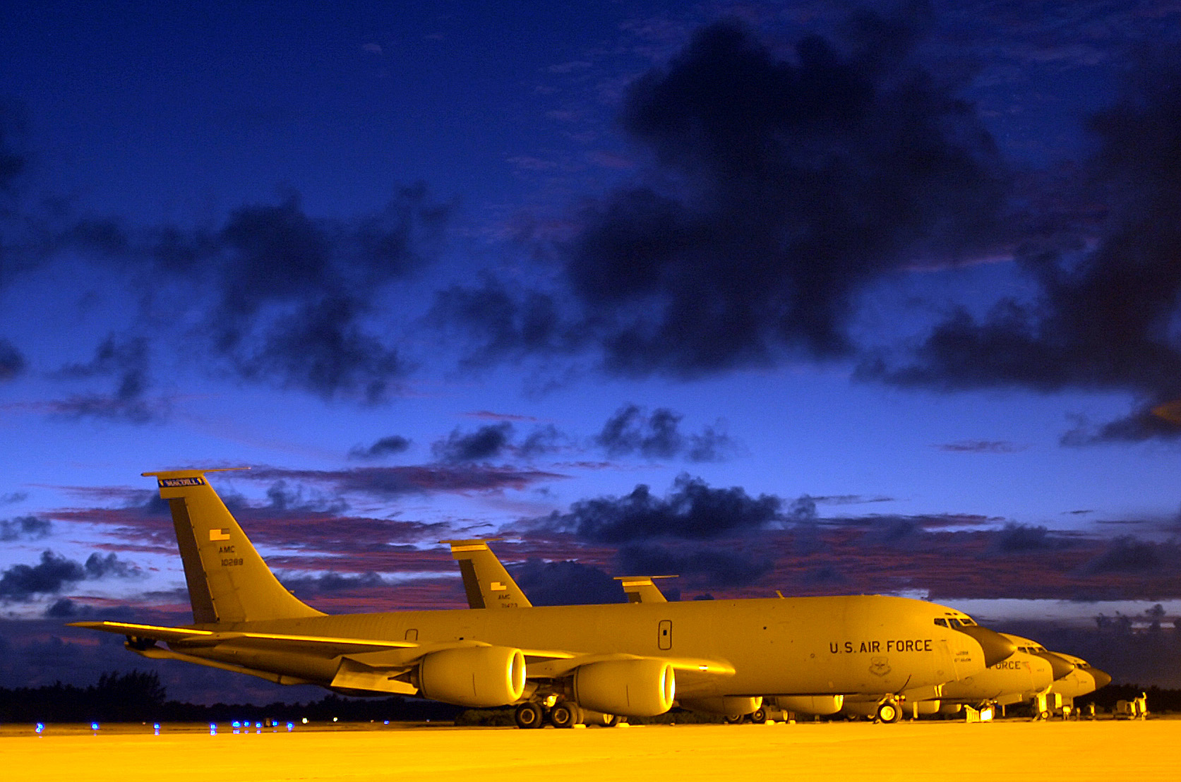 04/20/06 - KC-135 Stratotanker aircraft from the 40th Air Expeditionary Group sit on the ramp in the evening ready to support a B-52 Stratofortress mission over the skies of Afghanistan April 20, 2006. (U.S. Air Force photo by Senior Master Sgt. John Rohrer) (Released)